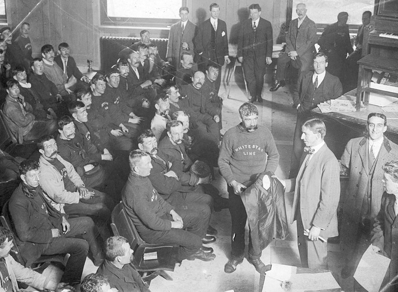 Rescued crew members from the RMS Titanic being given dry clothes in New York City, 1912.